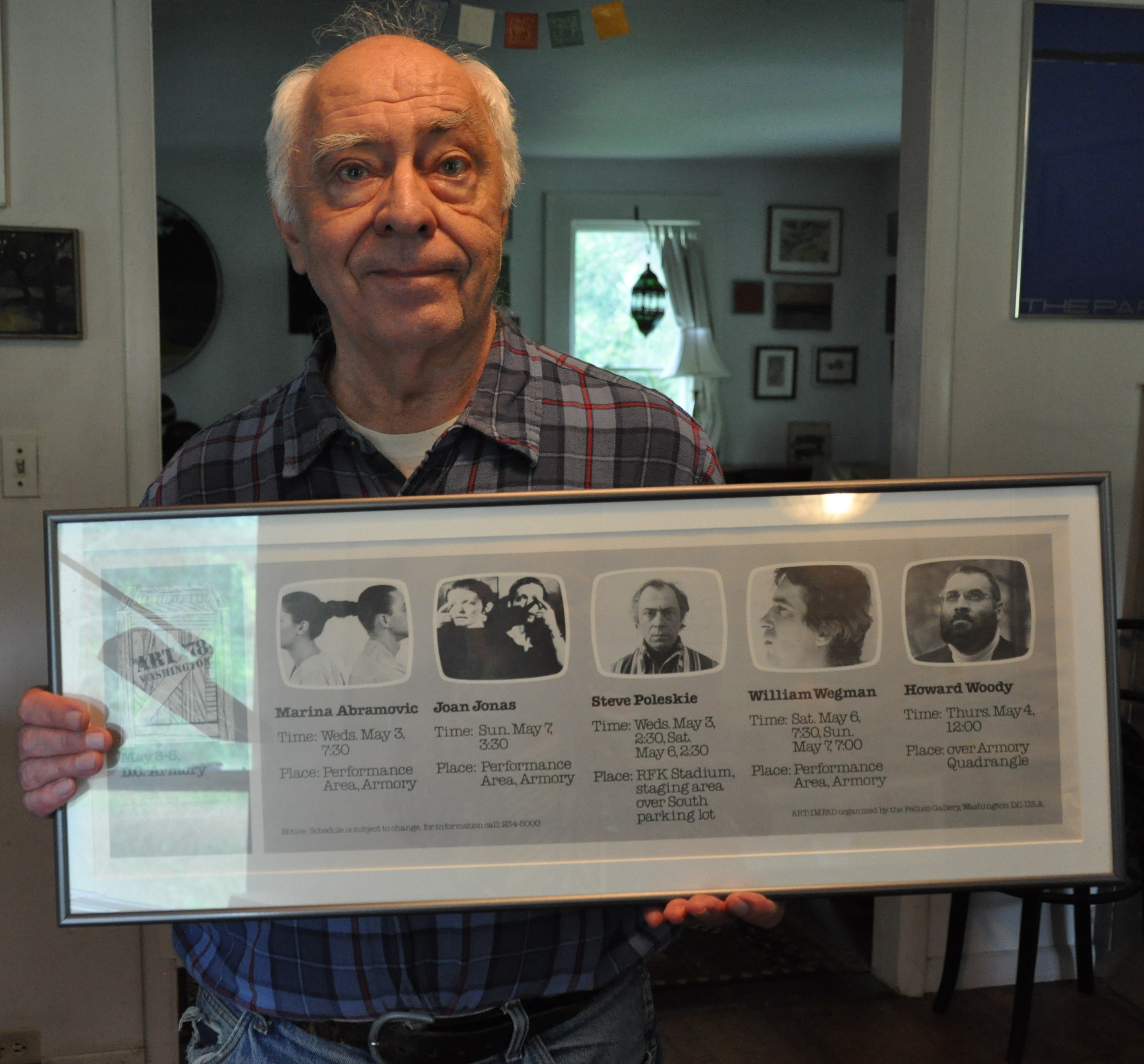 Steve Poleskie (July 2015)